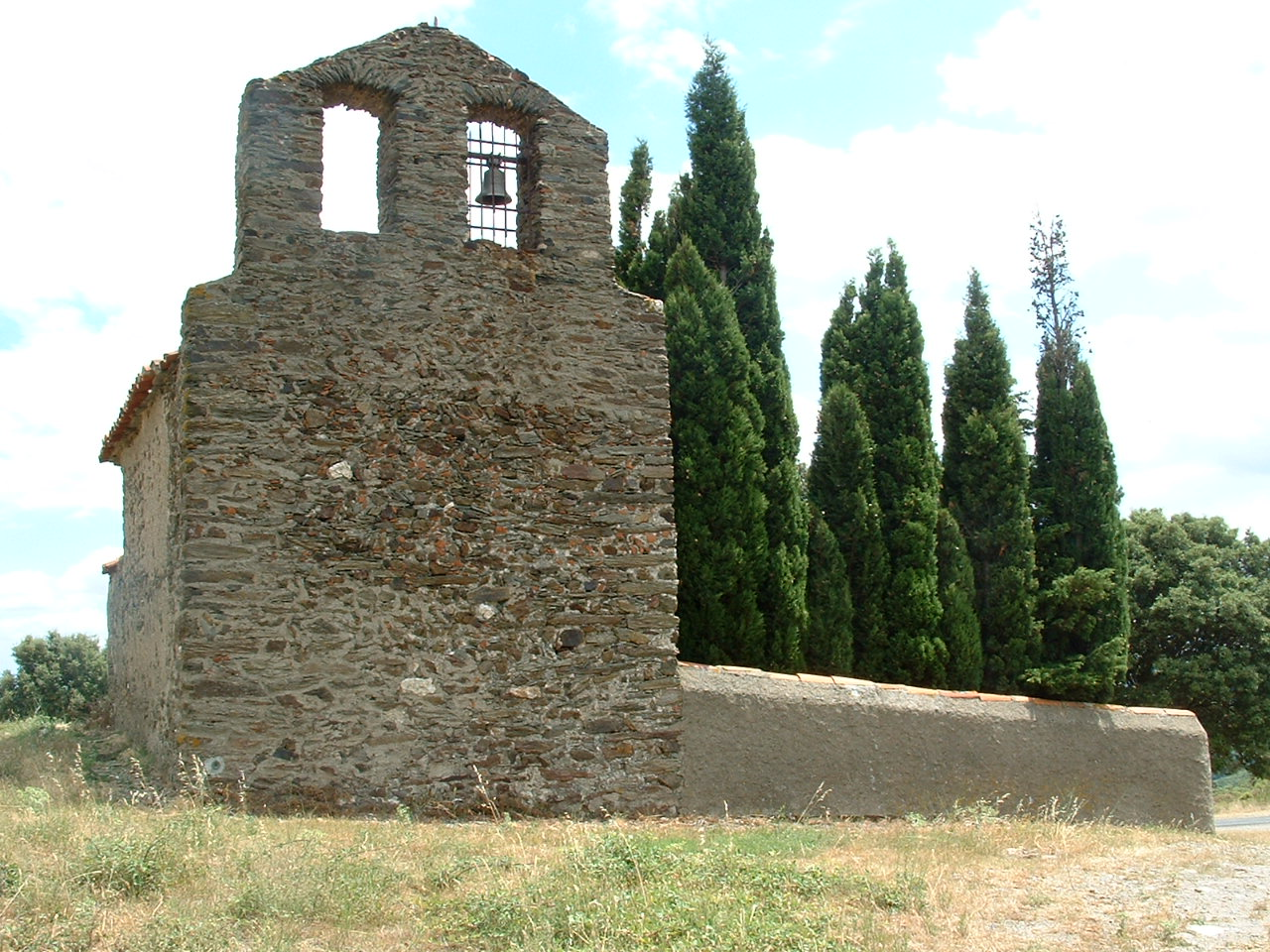 Chapel of Sainte-Marie de Fontcouverte, near Caixas (département of Pyrénées-Orientales, Languedoc-Roussillon région, France)